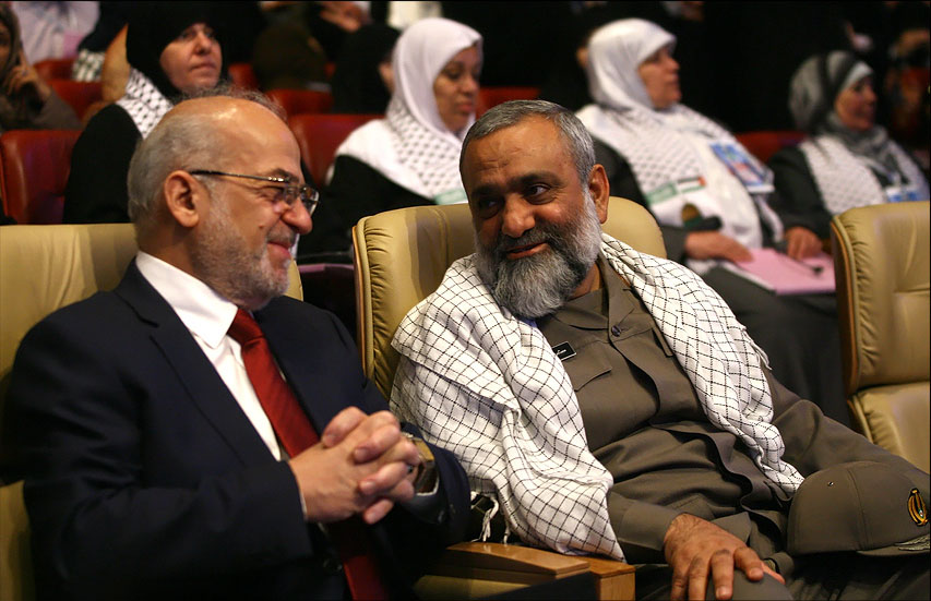 Ibrahim al-Jaafari and Mohammad Reza Naqdi in World Conference On Women And Islamic Awakening, Tehran.